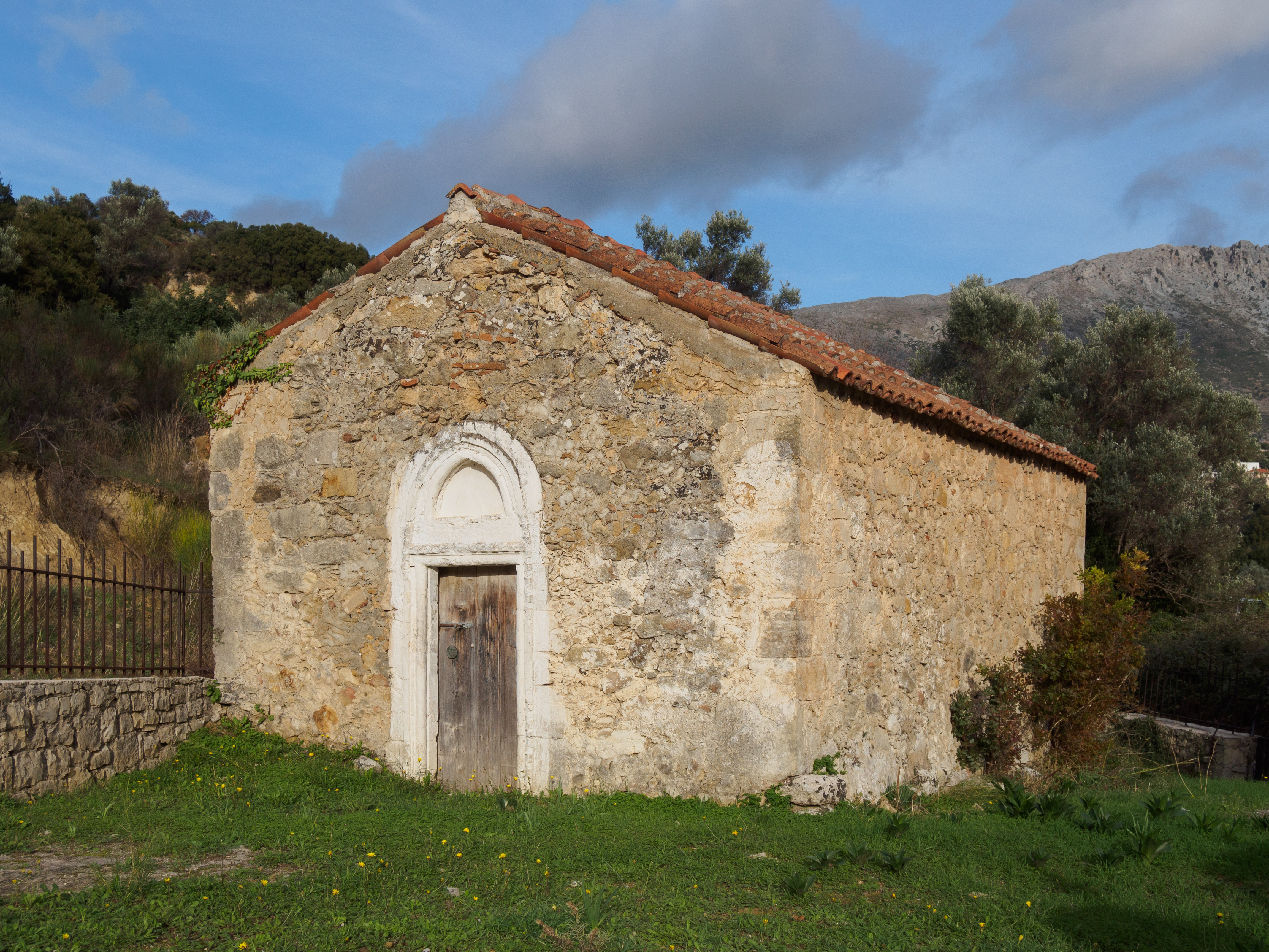 The church of Saint Onoufrios in Genna, Amari, at the cemetary of the village. It was built in 1318, according to an inscription in its interior.